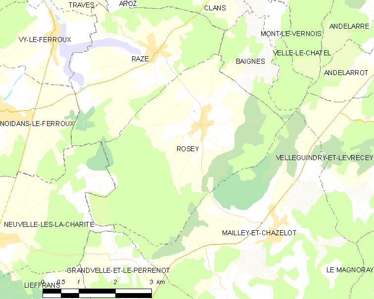 Map of French municipality